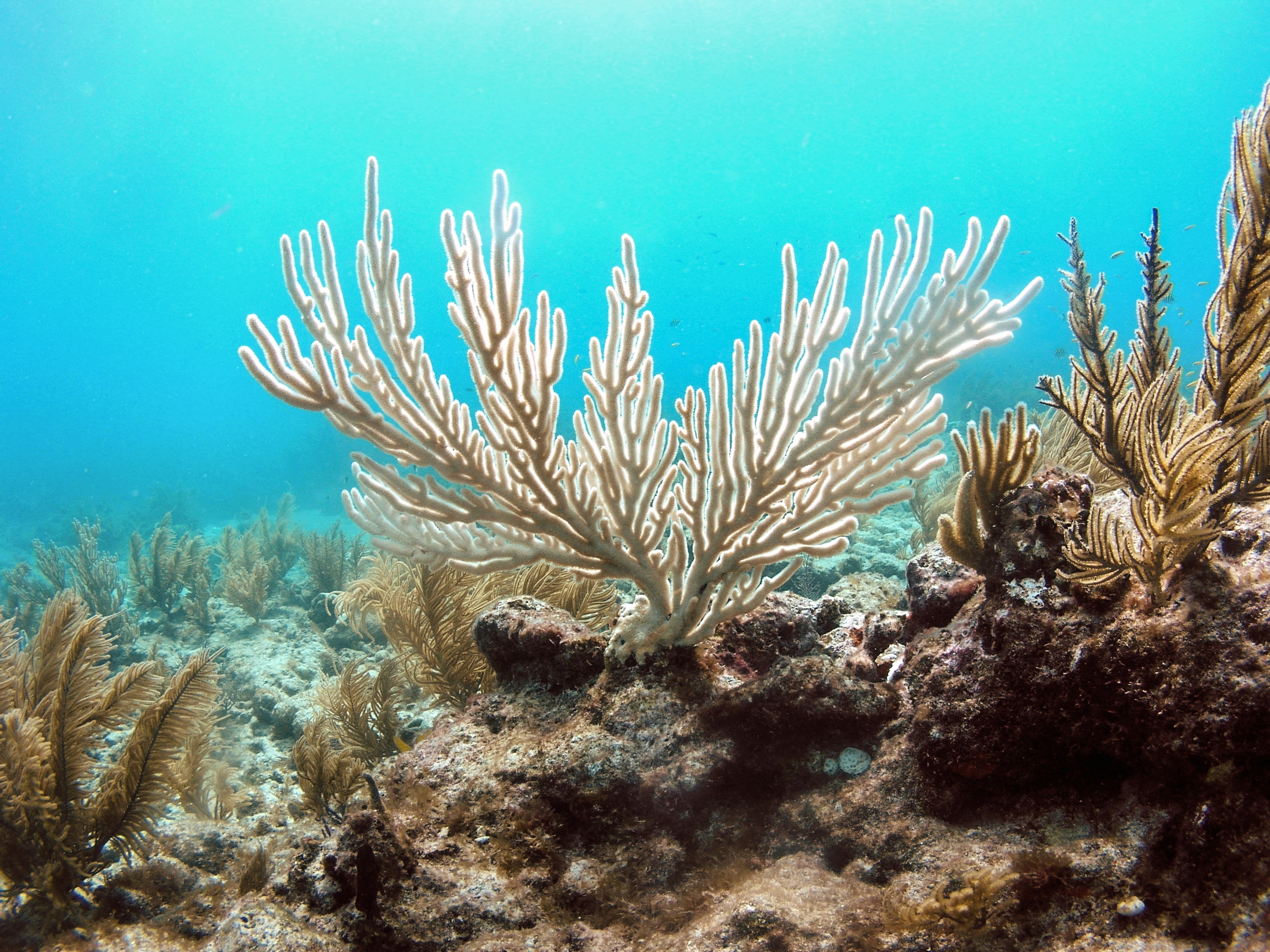 A colony of the soft coral known as the "bent sea rod" stands bleached on a reef off of Islamorada, Florida. Photo credit: Kelsey Roberts, USGS.